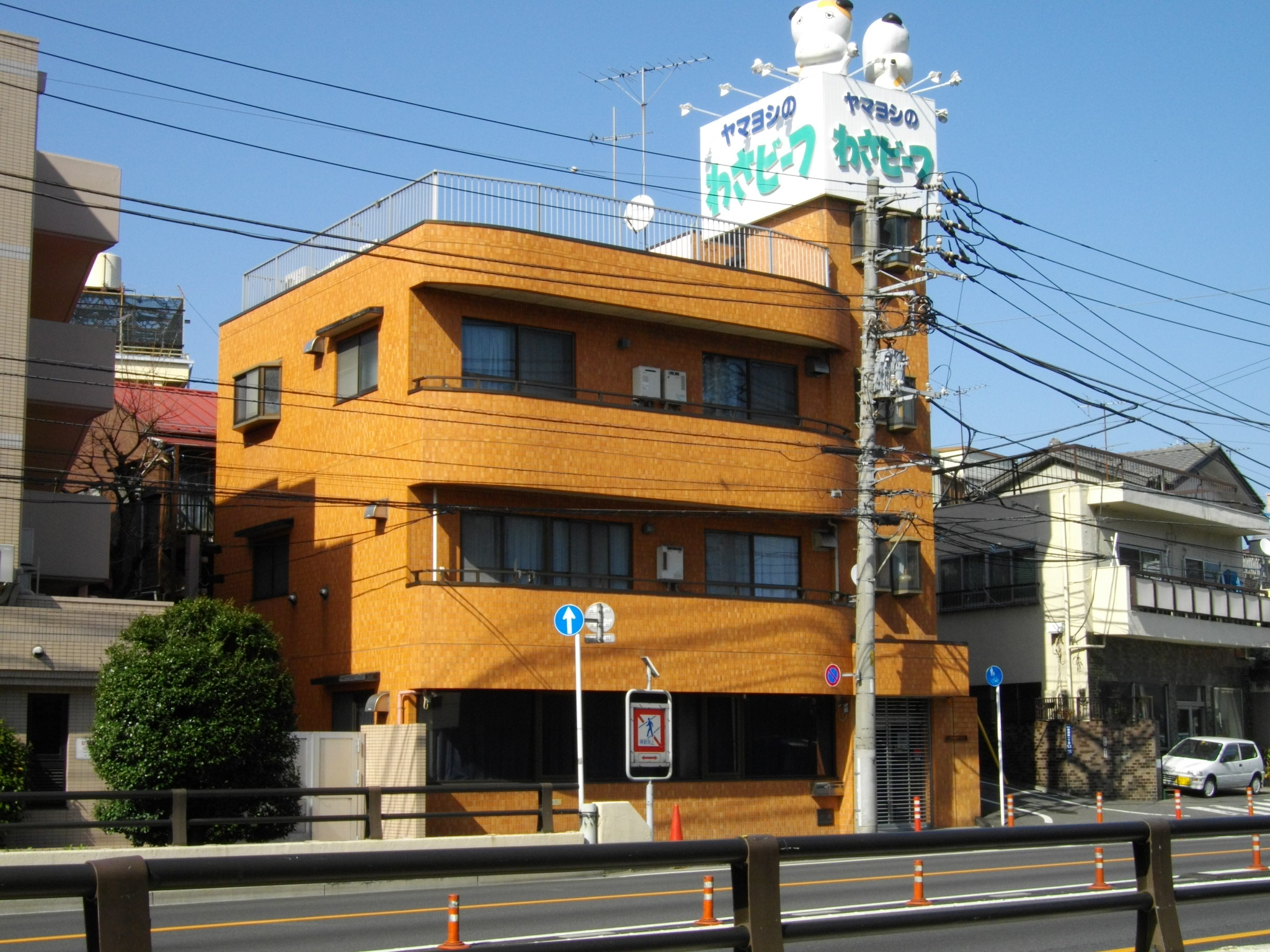 Yamayoshi Foods Head Office